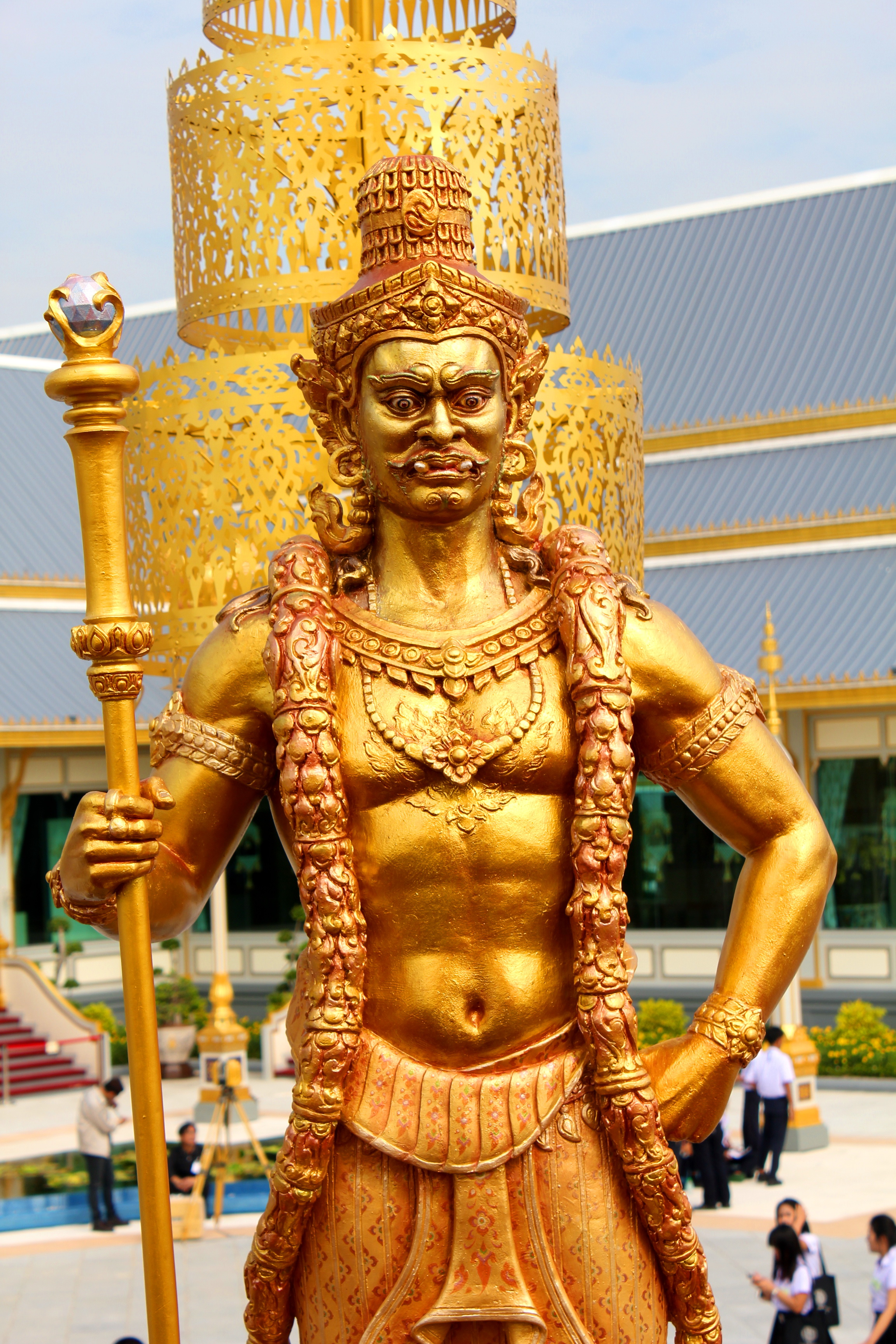 Royal Crematorium King Bhumibol Adulyadej of Thailand